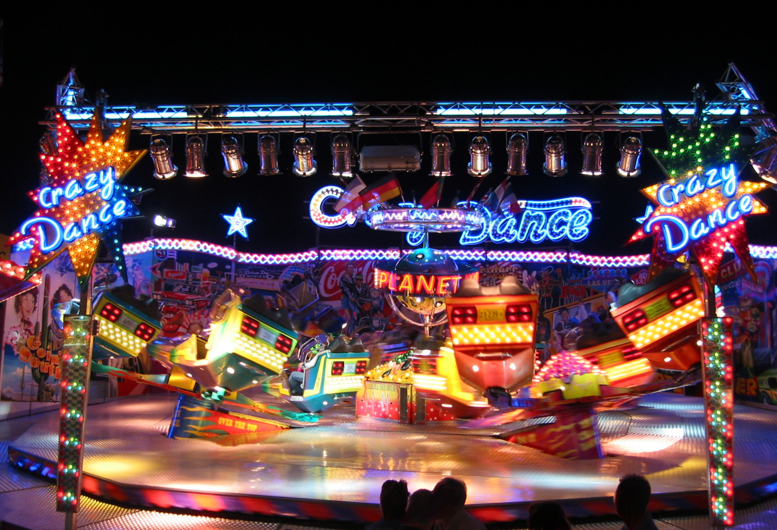 The New Crazy Dance, a Crazy Dance made by Fabbri. Author: User:Boris23